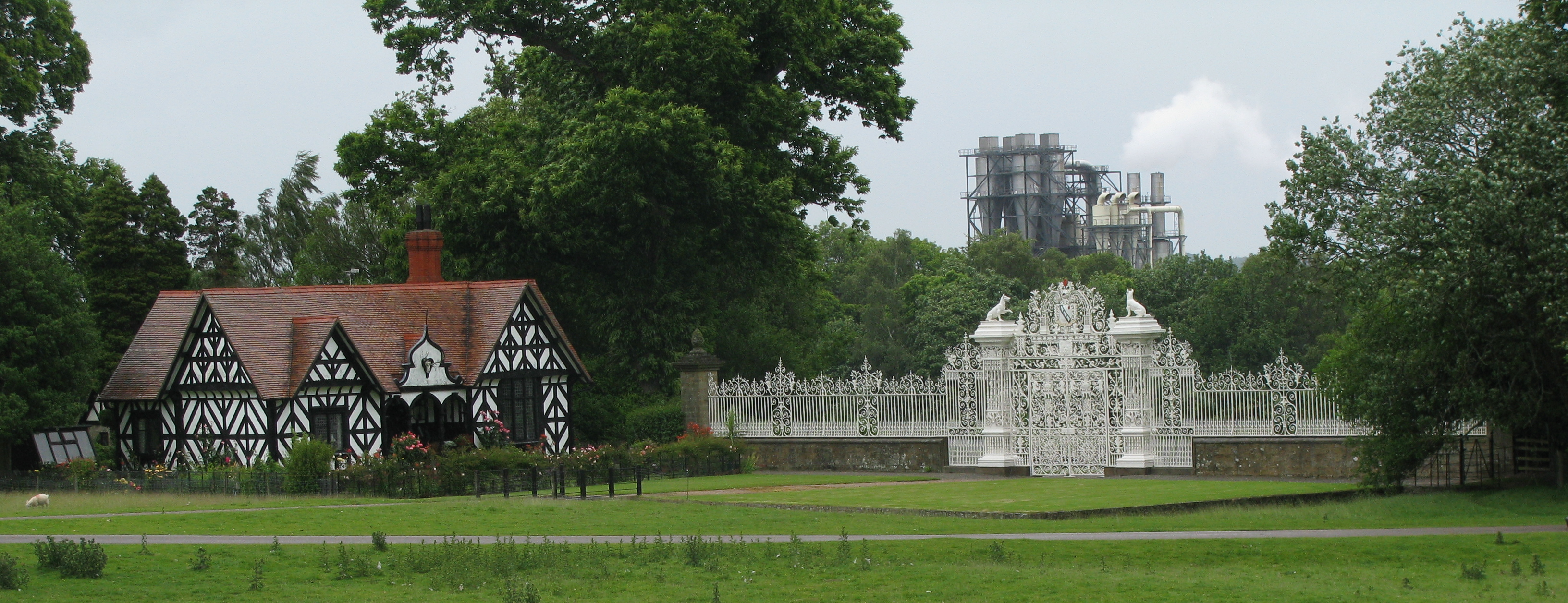 Chirk Castle Gates and gatehouse with the Cadbury chocolate factory in the background, Chirk, Wales, UK.